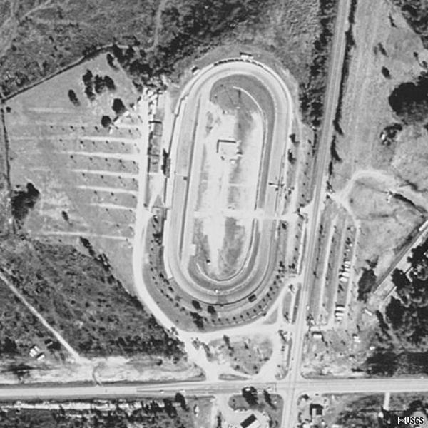 Aerial image of New Smyrna Speedway, located near New Smyrna Beach, Florida, United States